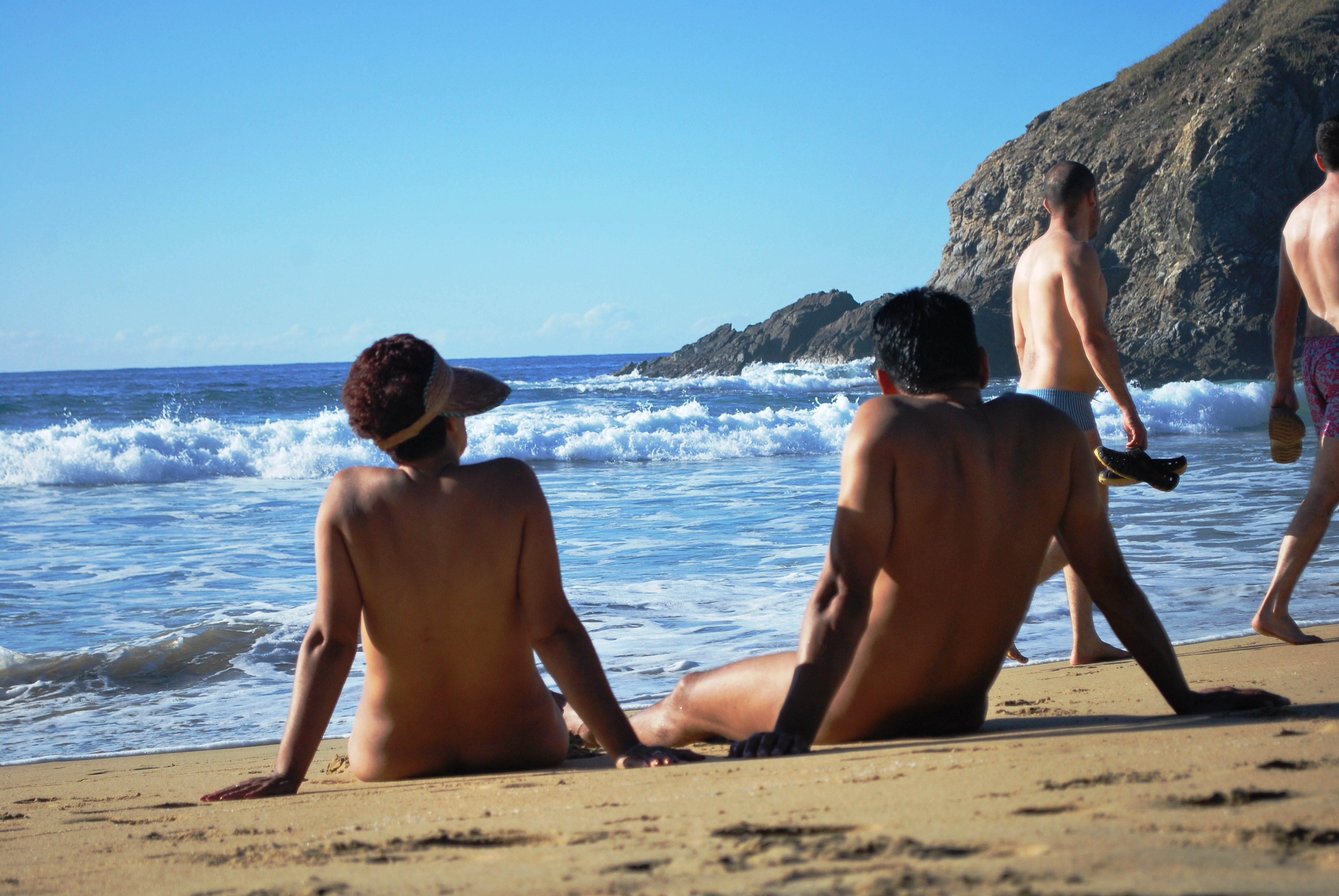 Nude sunbathers at Zipolite Beach, Oaxaca, Mexico